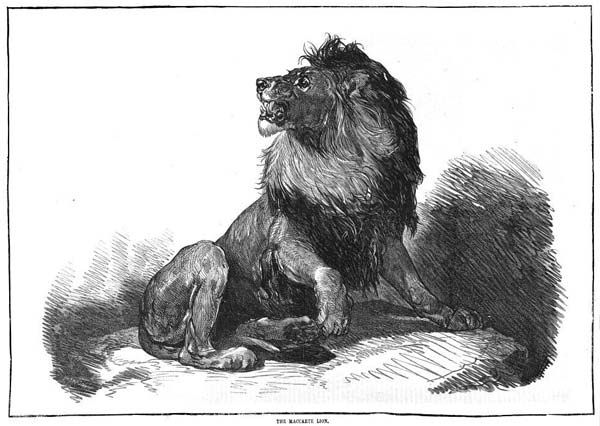 The Macarte Lion - The Illustrated London News, The Maccarte Lion, Nov. 28, 1874.